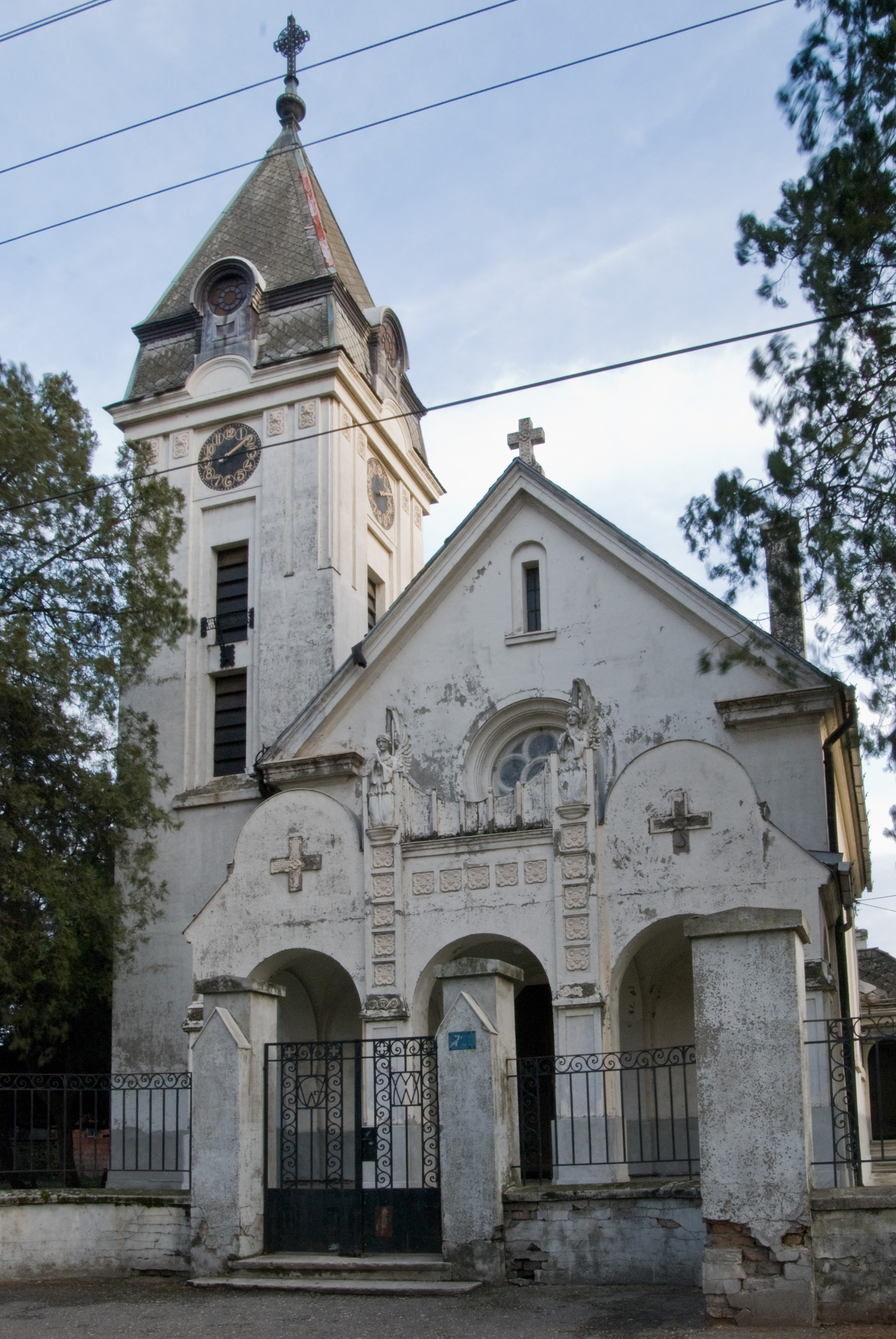 General look of Roman-catholic Church of Saint Ana in Pančevo